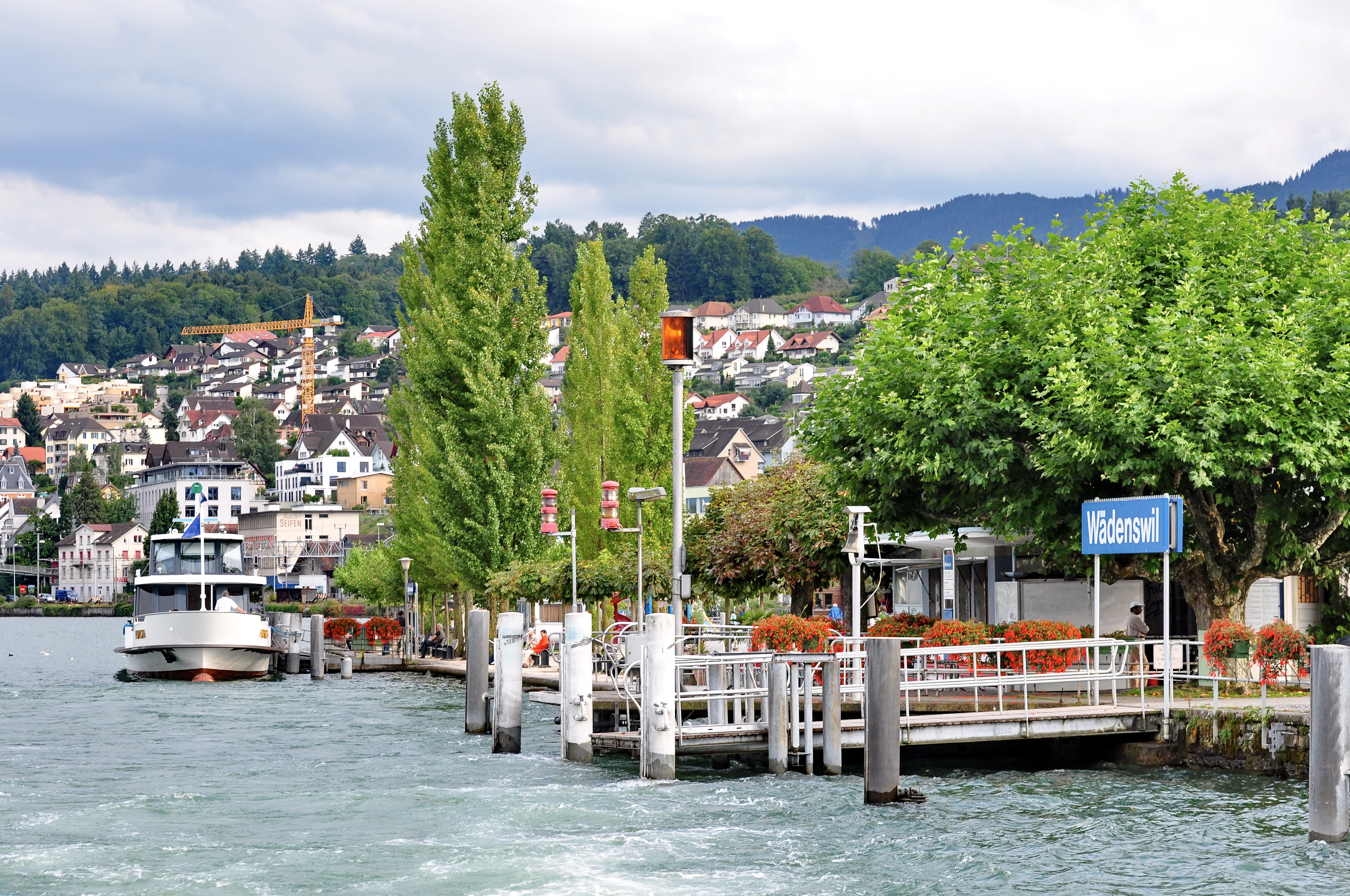 Wädenswil (Switzerland) as seen from ZSG motorship Linth